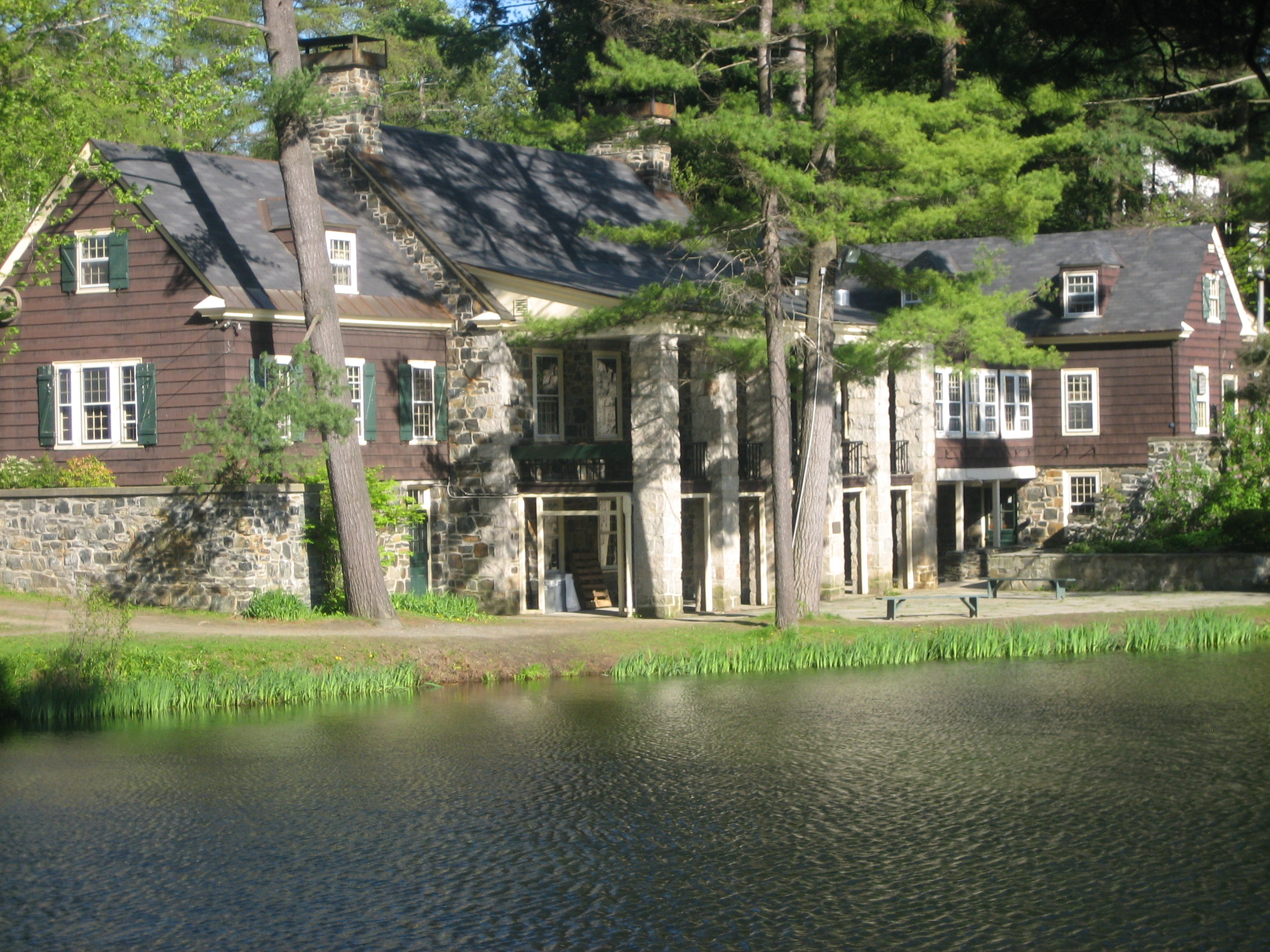 The DOC house at Dartmouth College